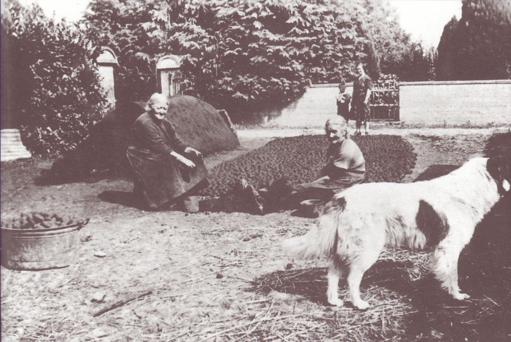 Picture shows two women making culm bombs and drying them in the Sun. When dried they can then be used as fuel in the same way as coal. Behind the woman on the left is a mound of culm (coal dust) for making future culm bombs.